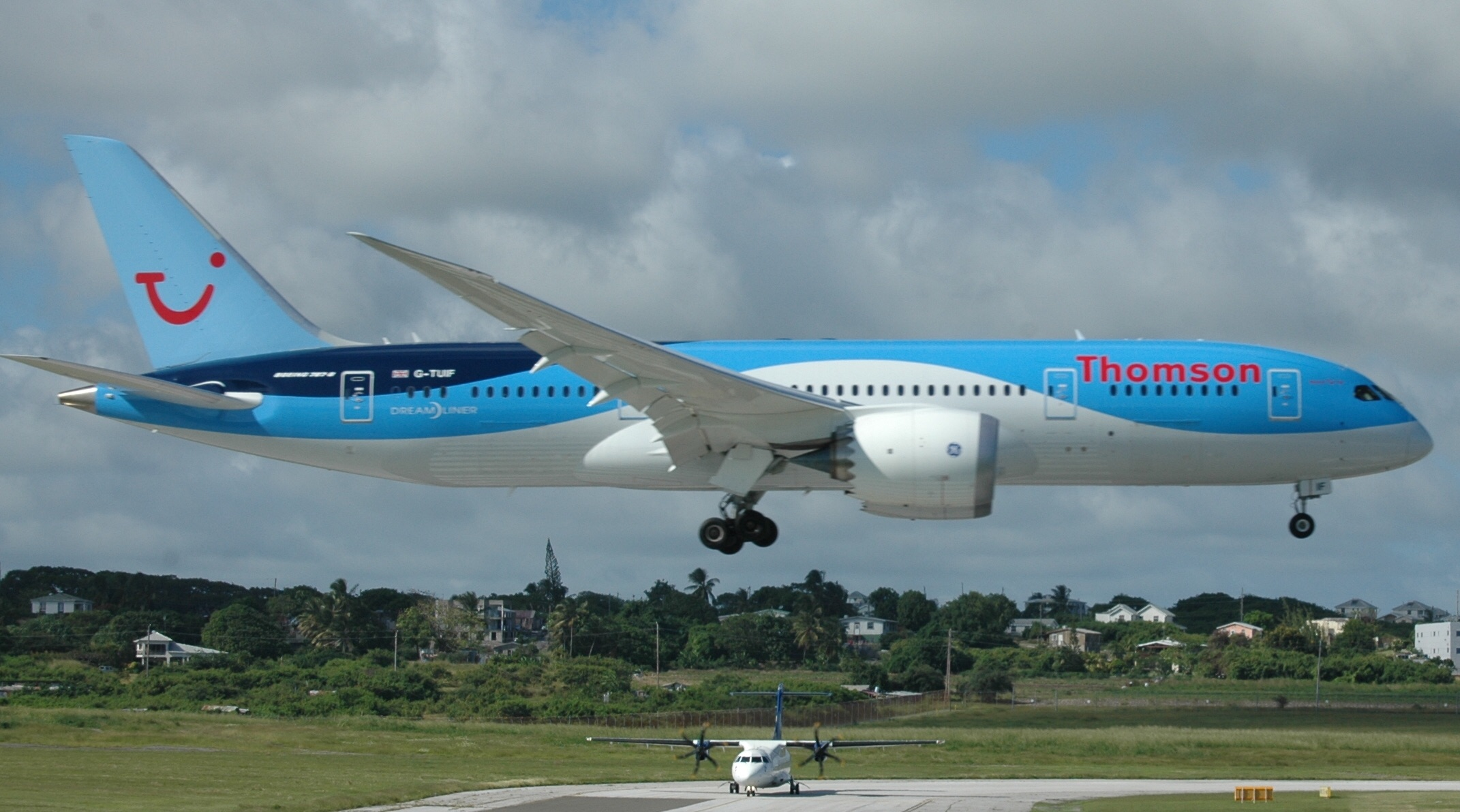 BY34 landing in Barbados